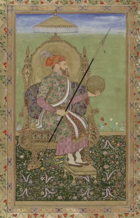 17th Century Mughals from the "Patna's Drawings" album Dating from the period of Shahjahan's reign. Bodleian Library, University of Oxford. Manuscript Douce Or. a.1 Source & descriptions